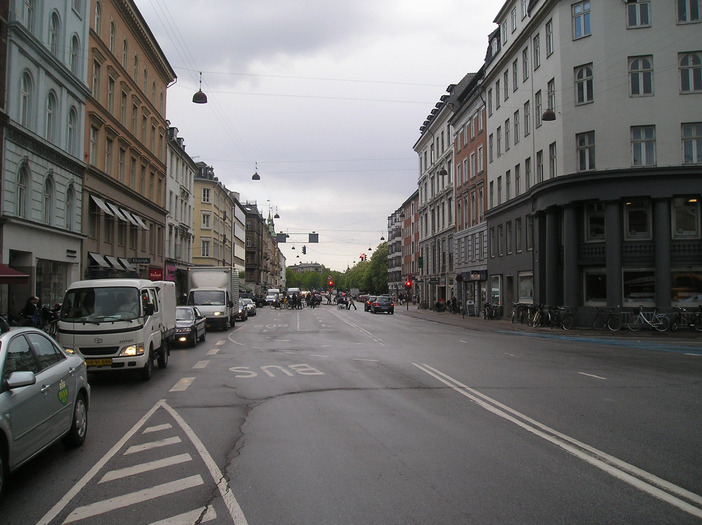 The Copenhagen street Østerbrogade seen from Trianglen towards the centre of Copenhagen.